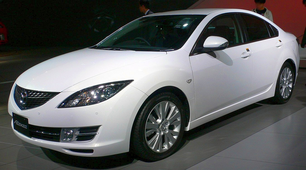 2nd generation Mazda Atenza Sedan photographed in Tokyo Motor Show 2007